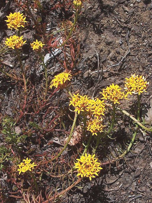 sandelwood Quinchamalium chilense, Family Santalaceae, photographed late December 2003, Pampa Linda, near Bariloche, Argentina